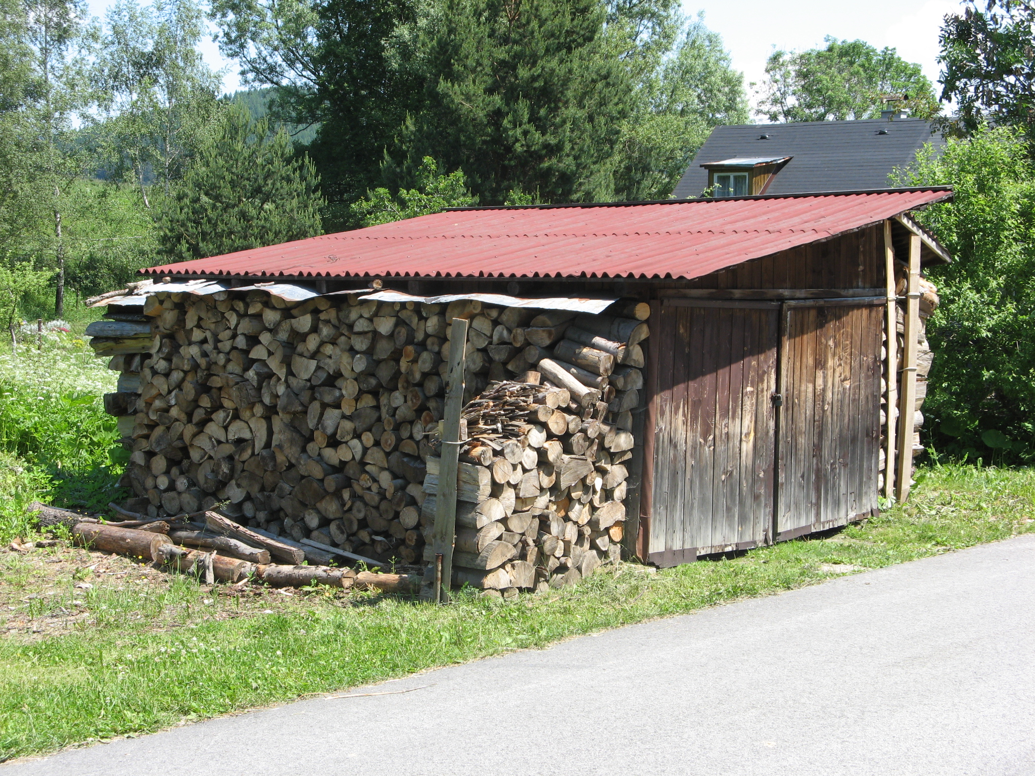 storage shack of wood, Slovakia